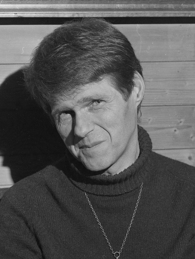 Finn Carling (1925, Oslo – 2004) was a Norwegian novelist, playwright, lyricist and essayist.